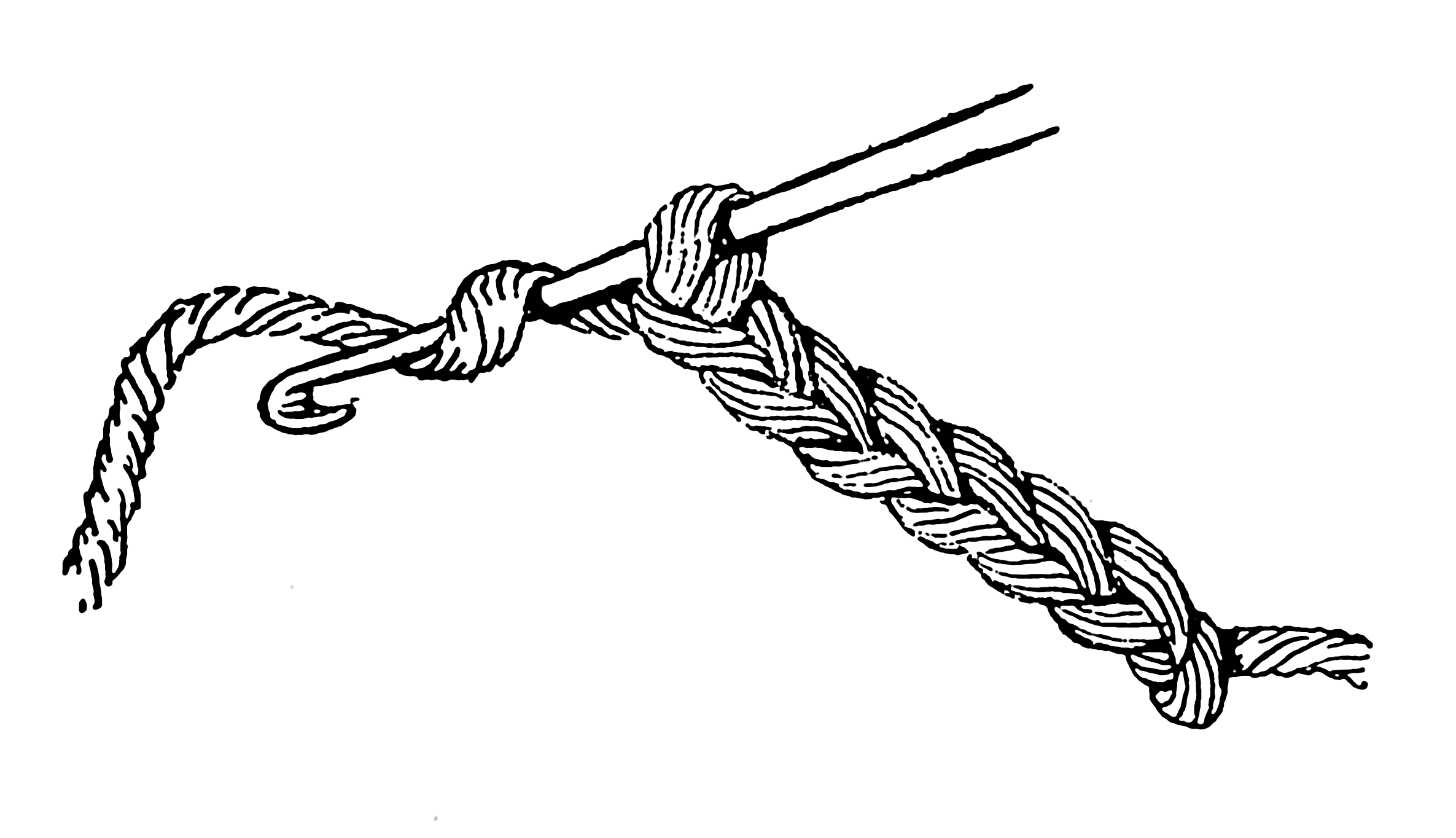 Line art example of a crochet hook with chain.